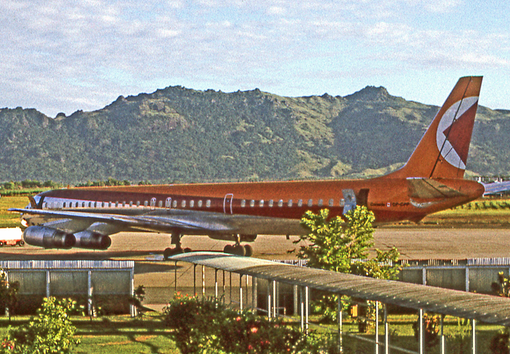 Douglas DC-8-63 CF-CPP of CP Air at Nadi Airport Fiji in 1971